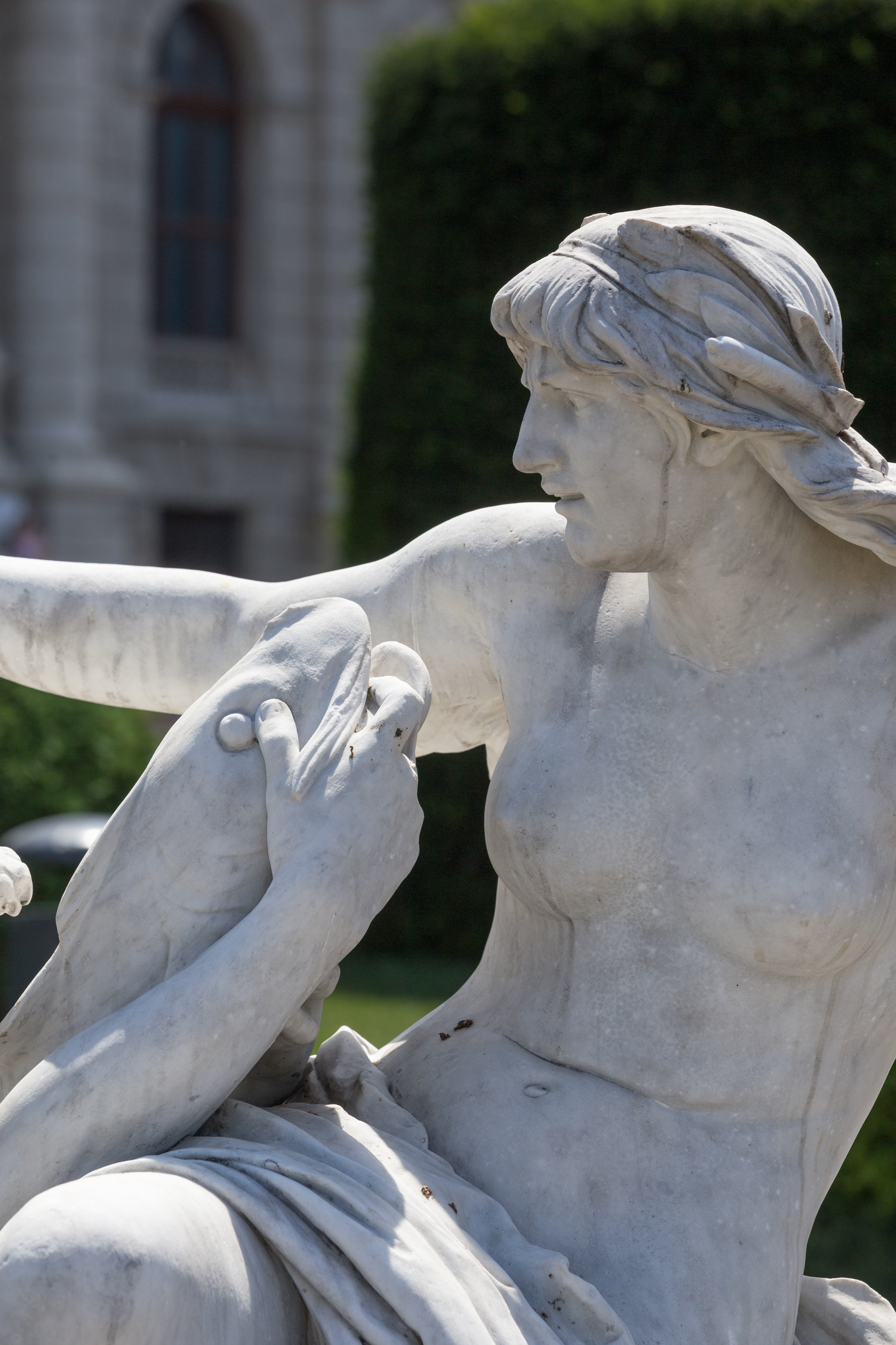 Triton and NajadFountain A, Artist: Anton Schmidgruber. This is one of four fountains at the Maria-Theresien-Square in Vienna, located at southeast The making of this work was supported by Wikimedia Austria. For other files made with the support of Wikimedia Austria, please see the category Supported by Wikimedia Österreich.